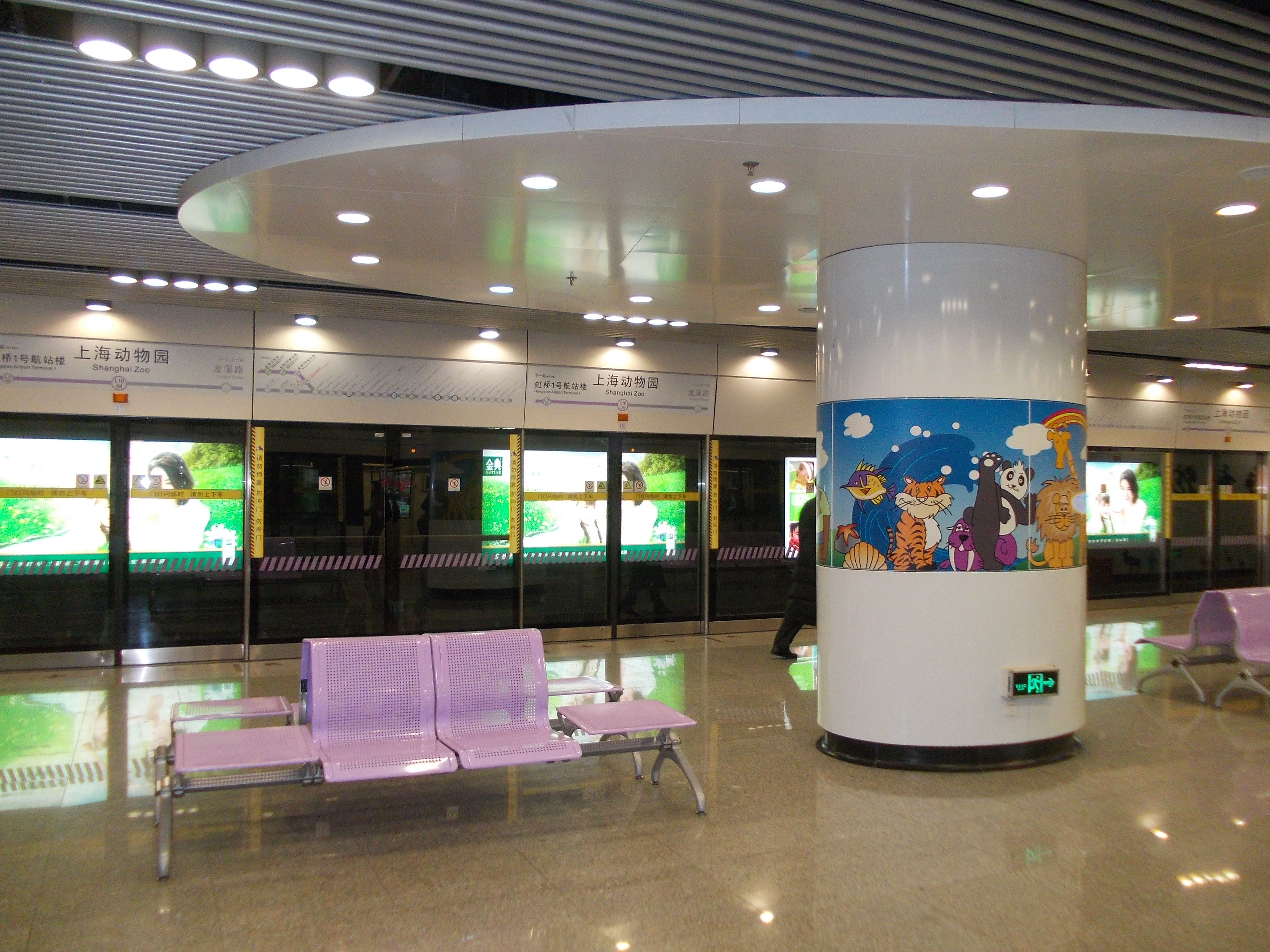 Shanghai Metro - Line 10 - Shanghai Zoo